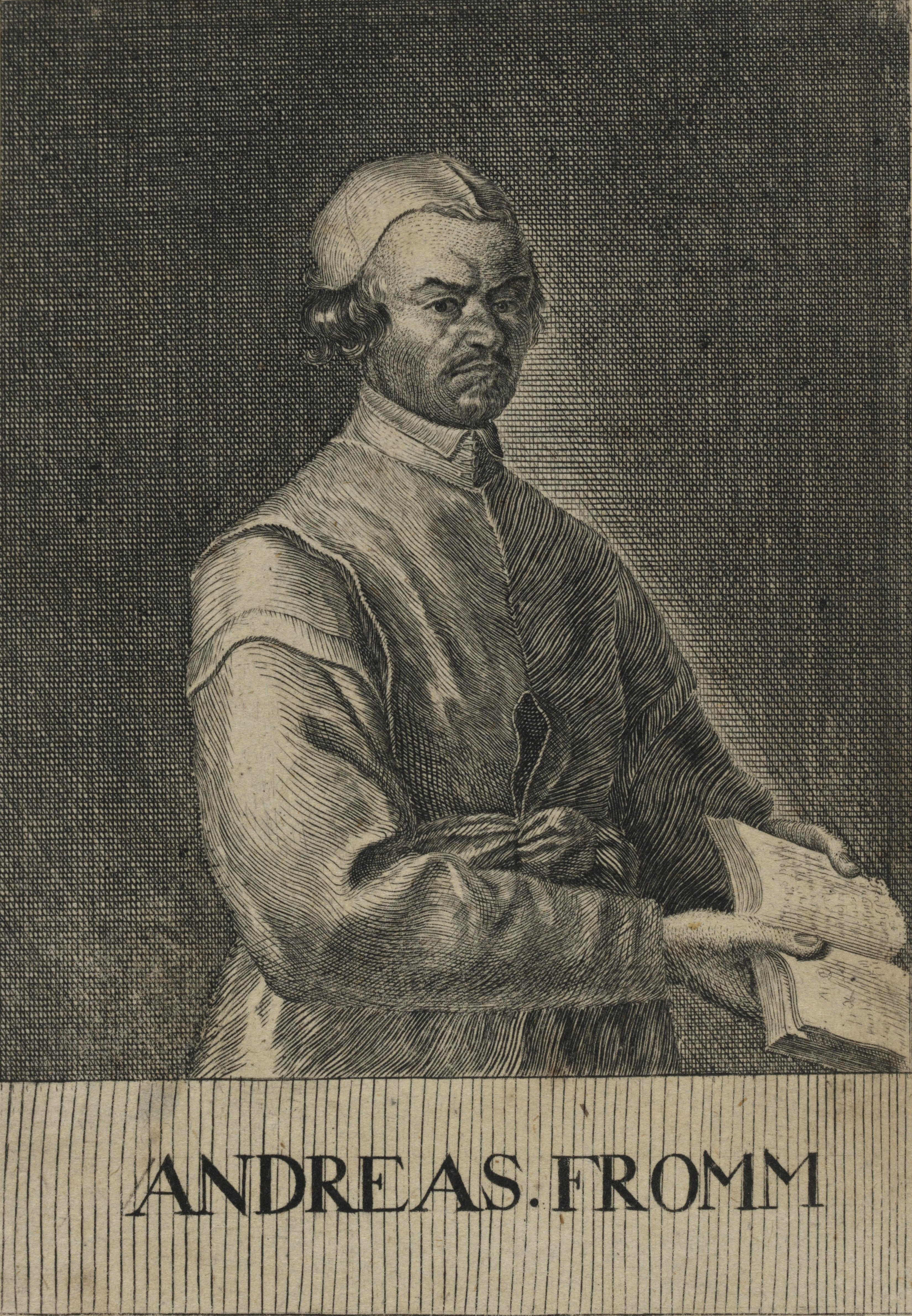 Andreas Fromm (1621-1683); 18th century engraving after a painting by Karel Škréta.([1])